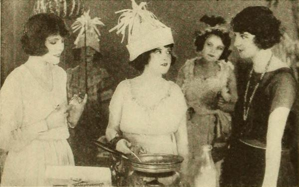 Still from the American comedy film Scrambled Wives (1921) with Marguerite Clark, published on page 54 of the June 1921 Photoplay magazine. Scrambled Wives was made under her direction, following which she retired at age 38.